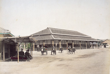 Kyushu Railway Nagasaki Station building, circa 1899. Building was destroyed during the atomic bombing in 1945.